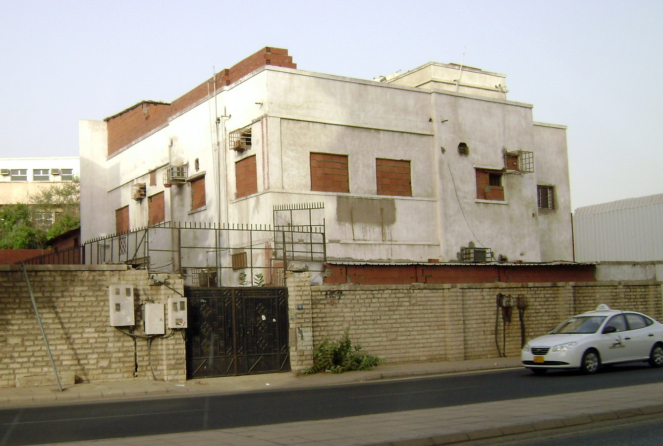 Old Building of Pakistan Embassy School